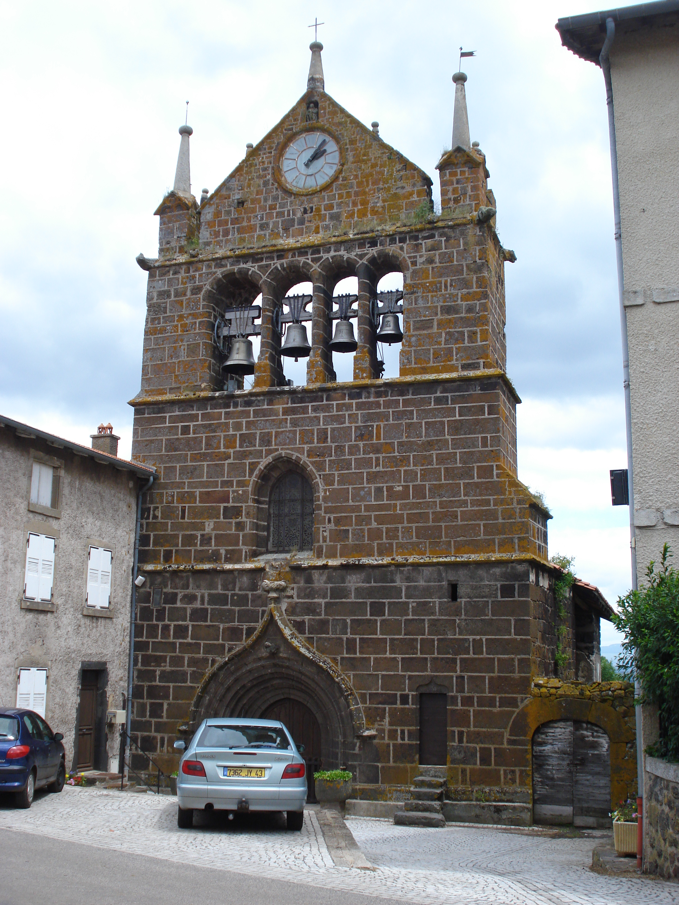 Le Brignon (Haute-Loire, Fr) bell gable of the church.